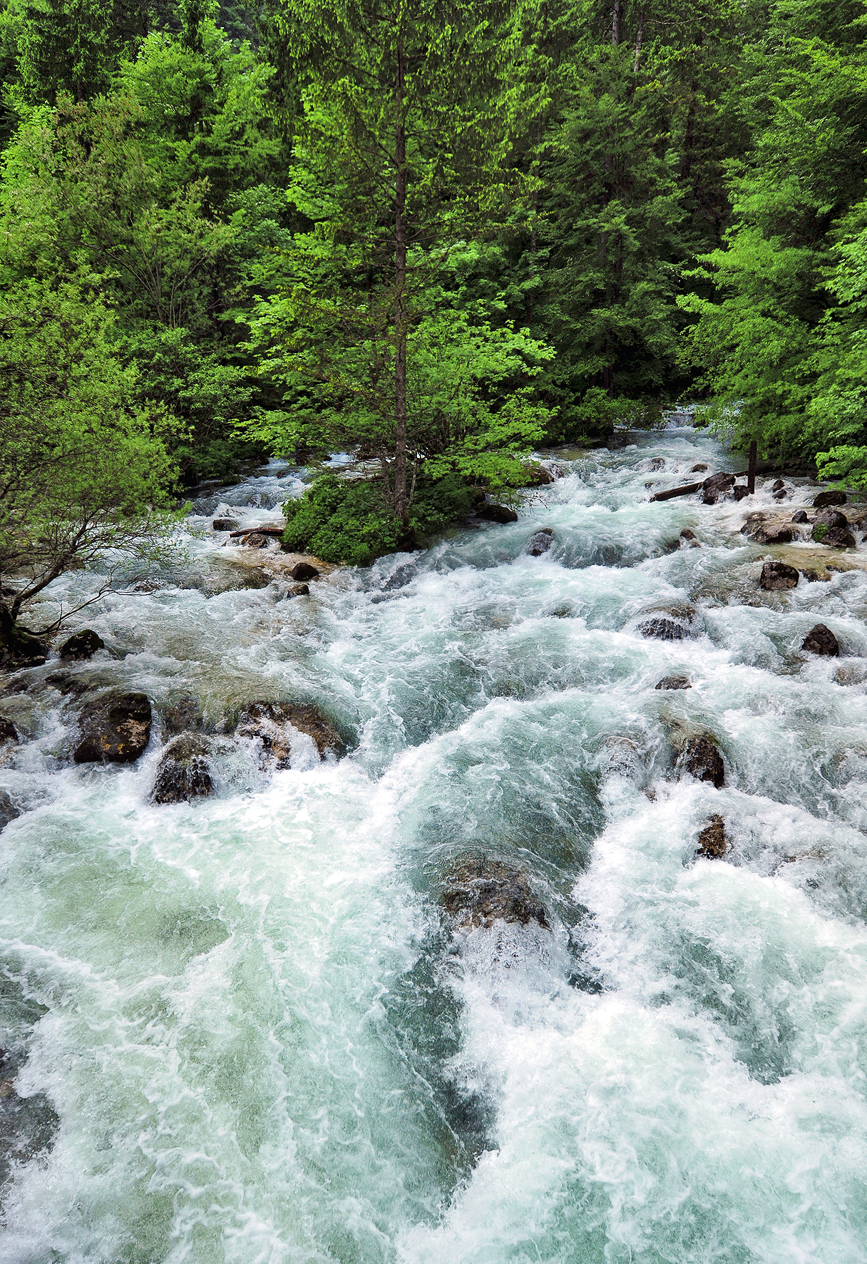 The image shows the confluence of the Mala Savica (left) and Velica Savica (right) in the White water Savica in the Triglav National Park in Slovenia.